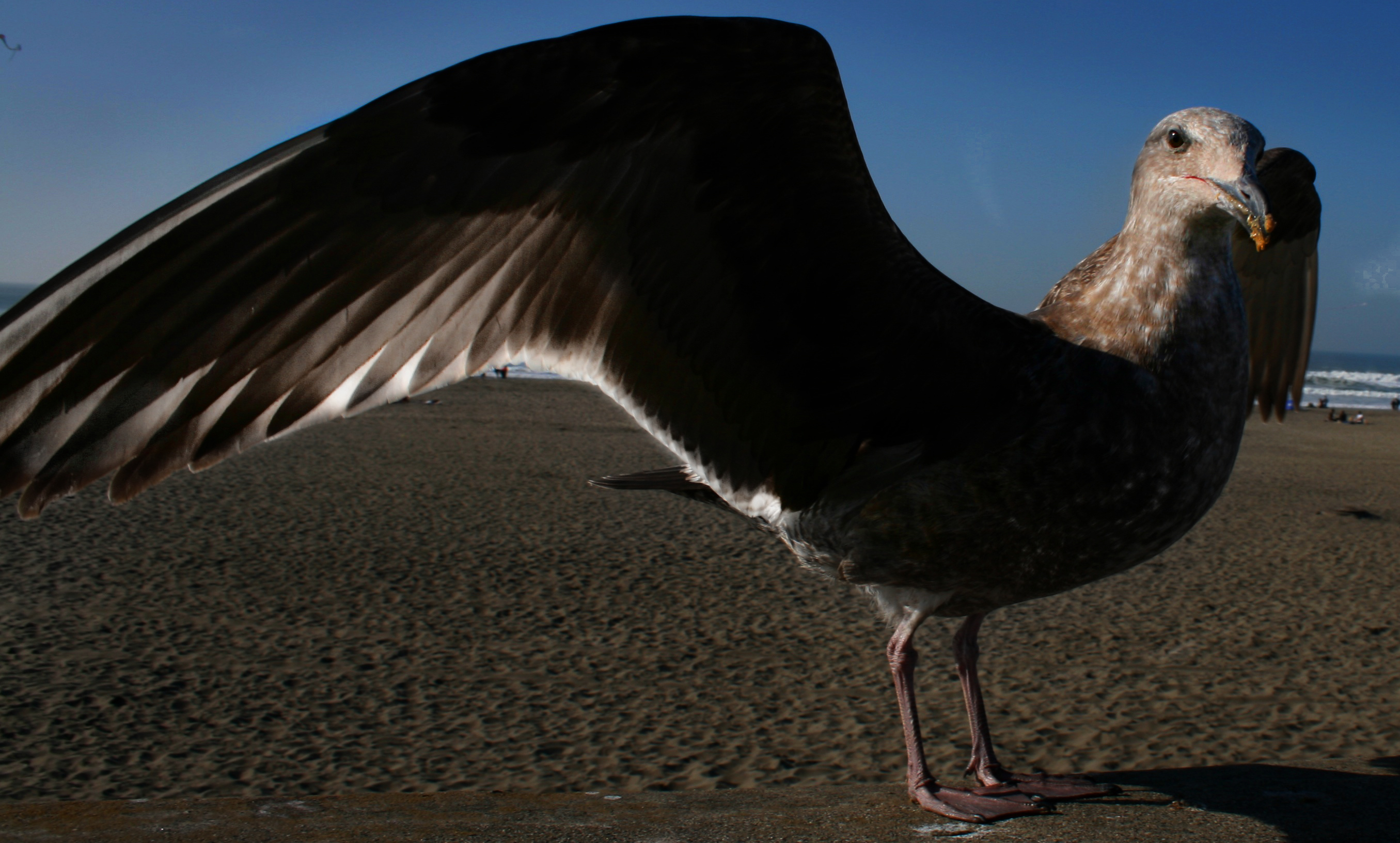 A juvenile Western Gull with spread wings and food stains on its beak.